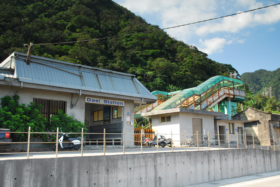 Dasi Station is a small local train station of Yilan Line, part of Taiwan's eastern rail line. It's located within the boundary of TouCheng Town, YiLan County.